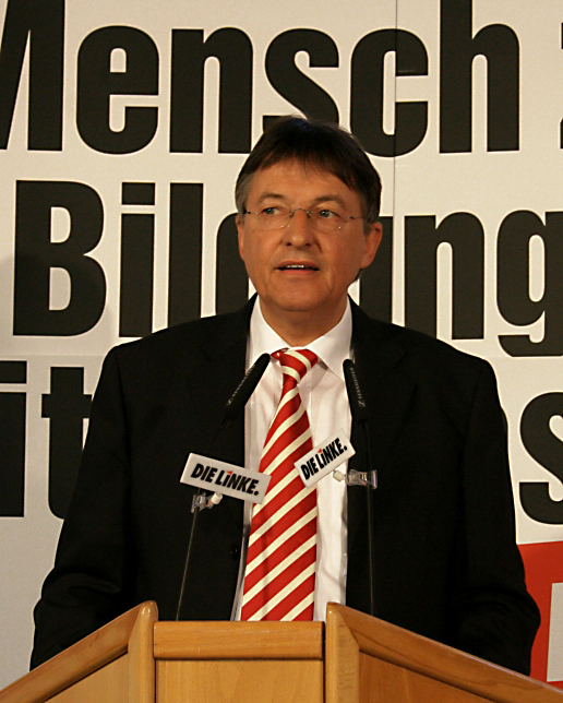 Germany politician of Saxony, Die Linke